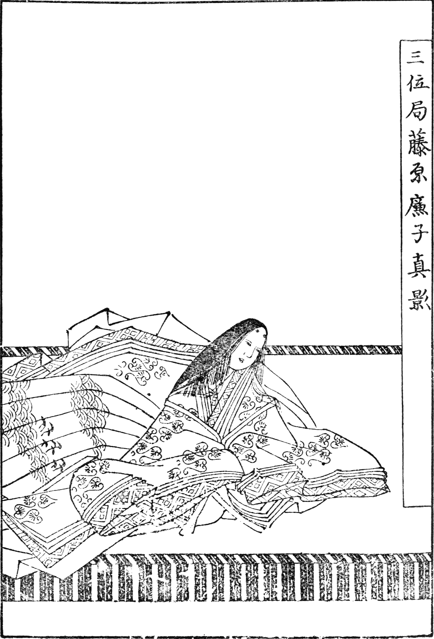 Portrait of Ano Renshi (Emperor Go-Daigo's consort)